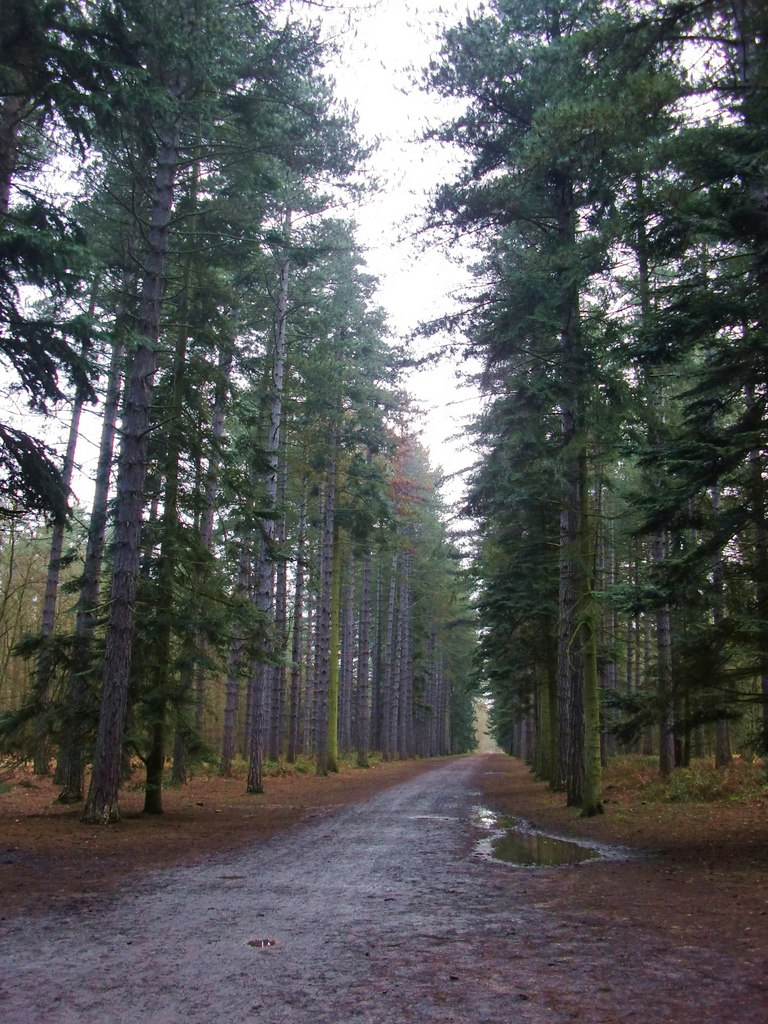 Excuse me - is this the right road for Castle Dracula ? I first discovered the dark conifer plantations of Black Park as a schoolboy, on a bike trip from West London. On later visits we found that filming often overflowed from Pinewood Studios next door (TQ0184) - on one occasion we happened on a deserted prisoner-of-war camp. Somebody at Hammer Films must have thought the place would make a good Transylvania, because in one of their productions (please don't ask which) you see a horse-drawn carriage, with unsuspecting passenger, rolling along this track en route for Dracula's castle. More recently, according to Wikipedia, the park has figured in the Harry Potter films and in 'Sleepy Hollow' (with photography by my near-namesake, Stefan Czapsky).